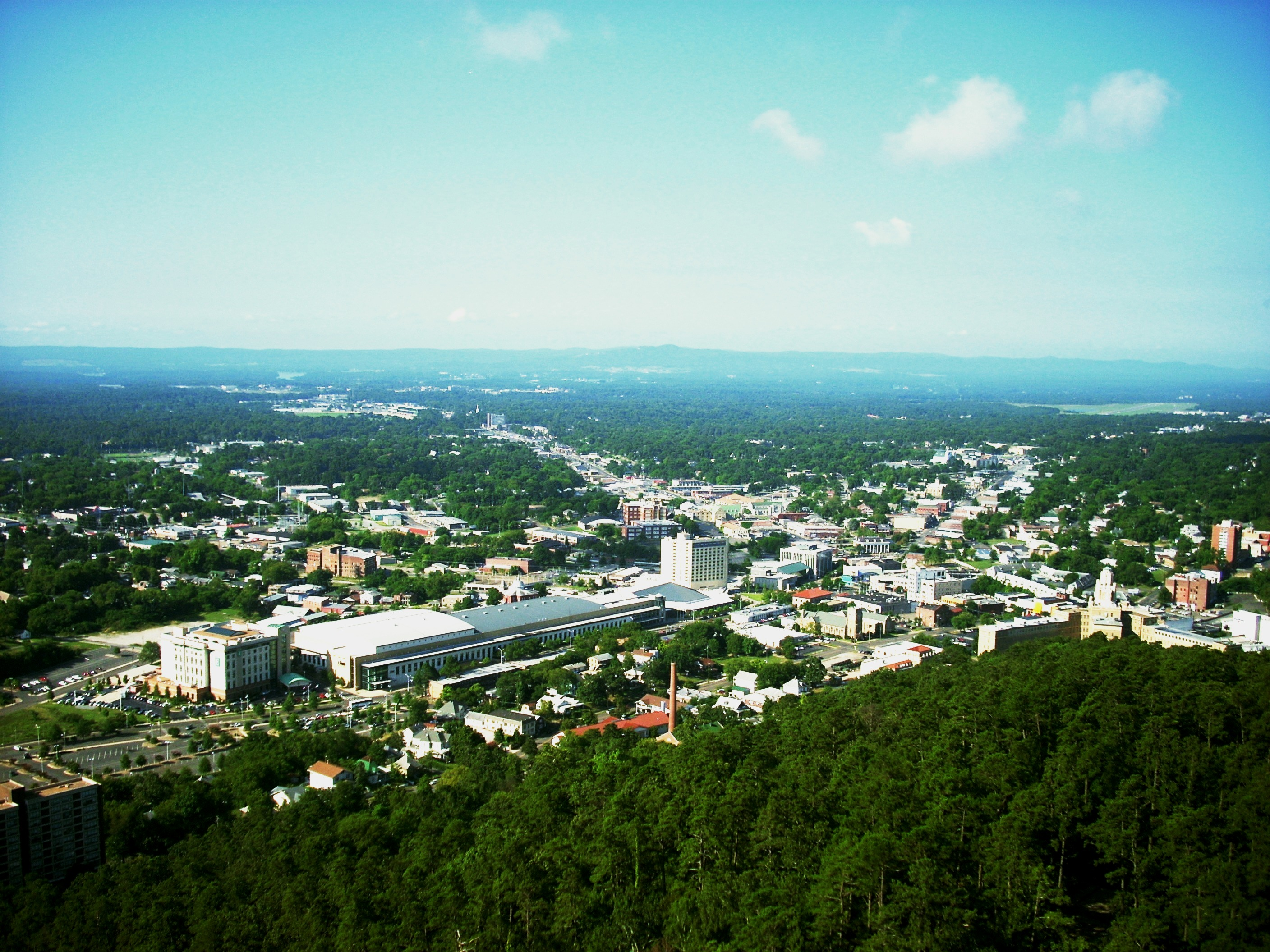 A view of Hot Springs, from atop a nearby scenic viewpoint.